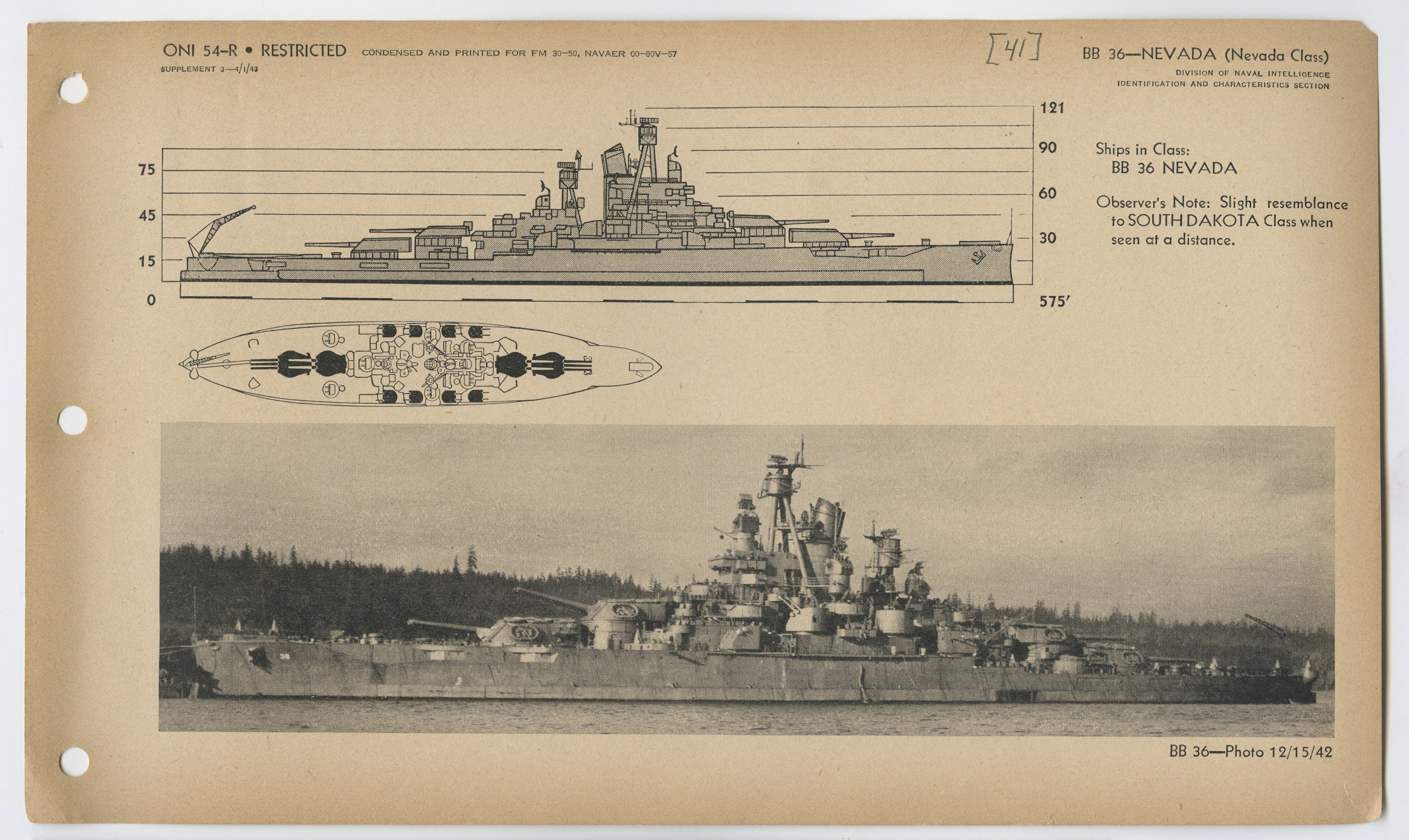 A U.S. Government document showing the length and appearance of the Nevada.